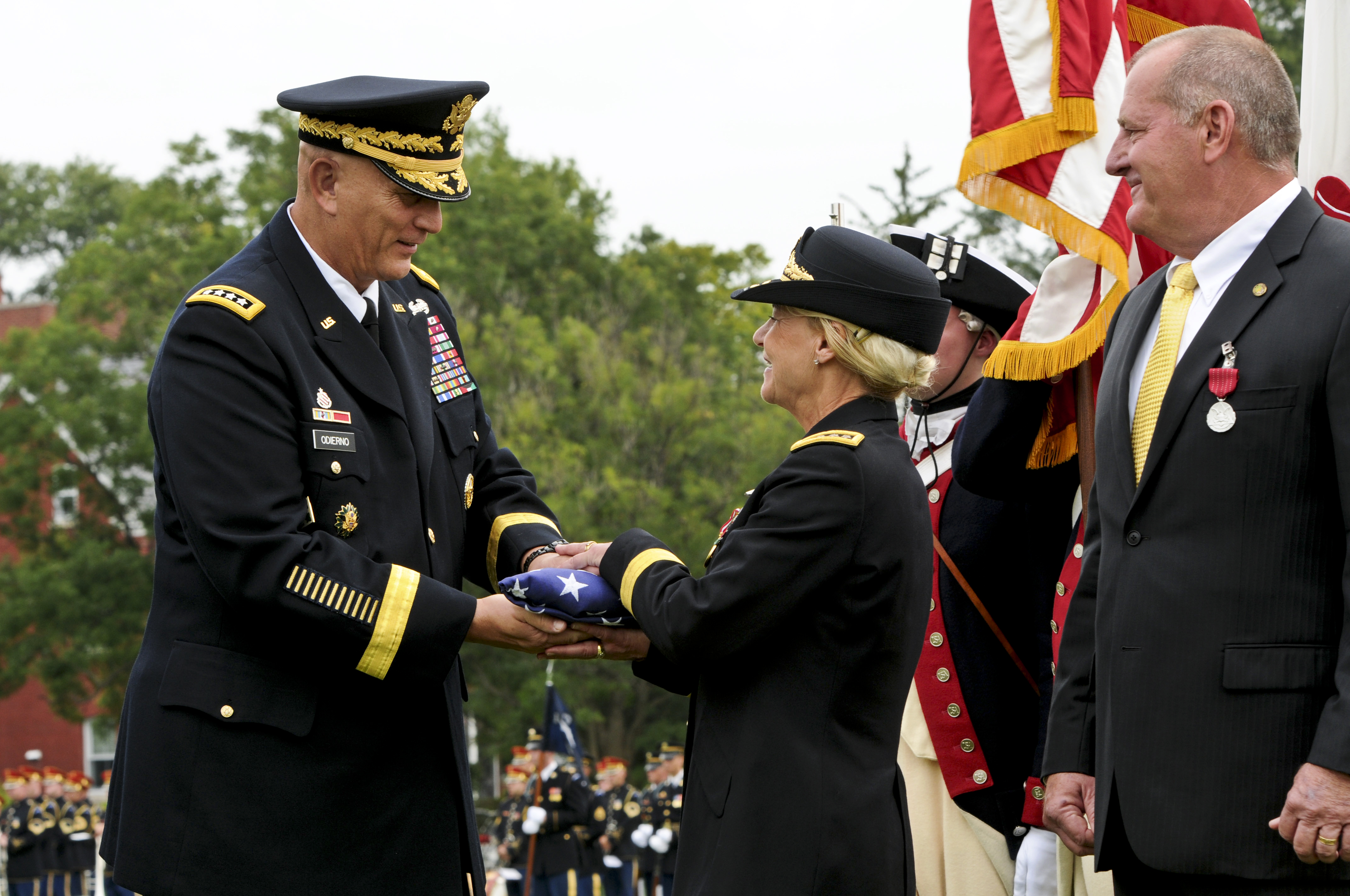 Army Chief of Staff Gen. Ray Odierno presents Army Gen. Ann E. Dunwoody, former commanding general of the Army Materiel Command, with a flag to honor her 38 years of service on Joint Base Myer-Henderson Hall in Arlington, Va., Aug. 15, 2012. Dunwoody's husband, retired Air Force Col. Craig Brotchie, accompanied her during her reitrement ceremony. U.S. Army photo by Staff Sgt. Benjamin K. Navratil